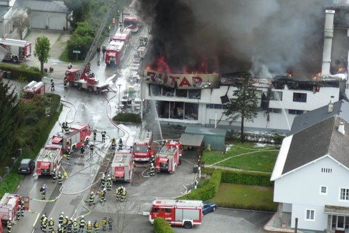 Major fire at RUTAR Eberndorf